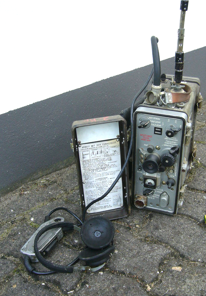 Sovjet military radio station R-108M with opened fronthood and headset.